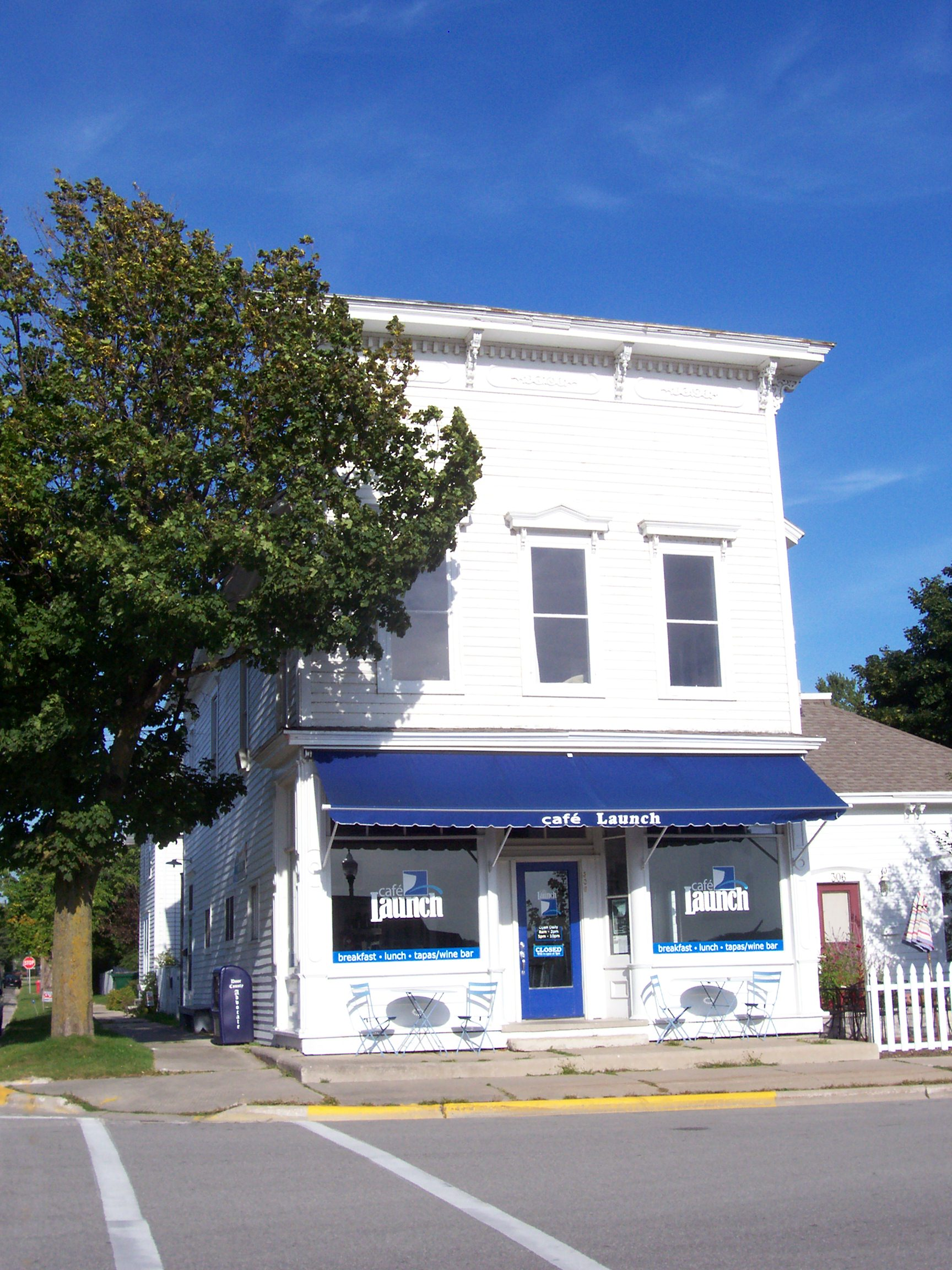 The L.A. Larsen Store in Sturgeon Bay, Wisconsin. The store, now a cafe, is listed on the National Register of Historic Places.